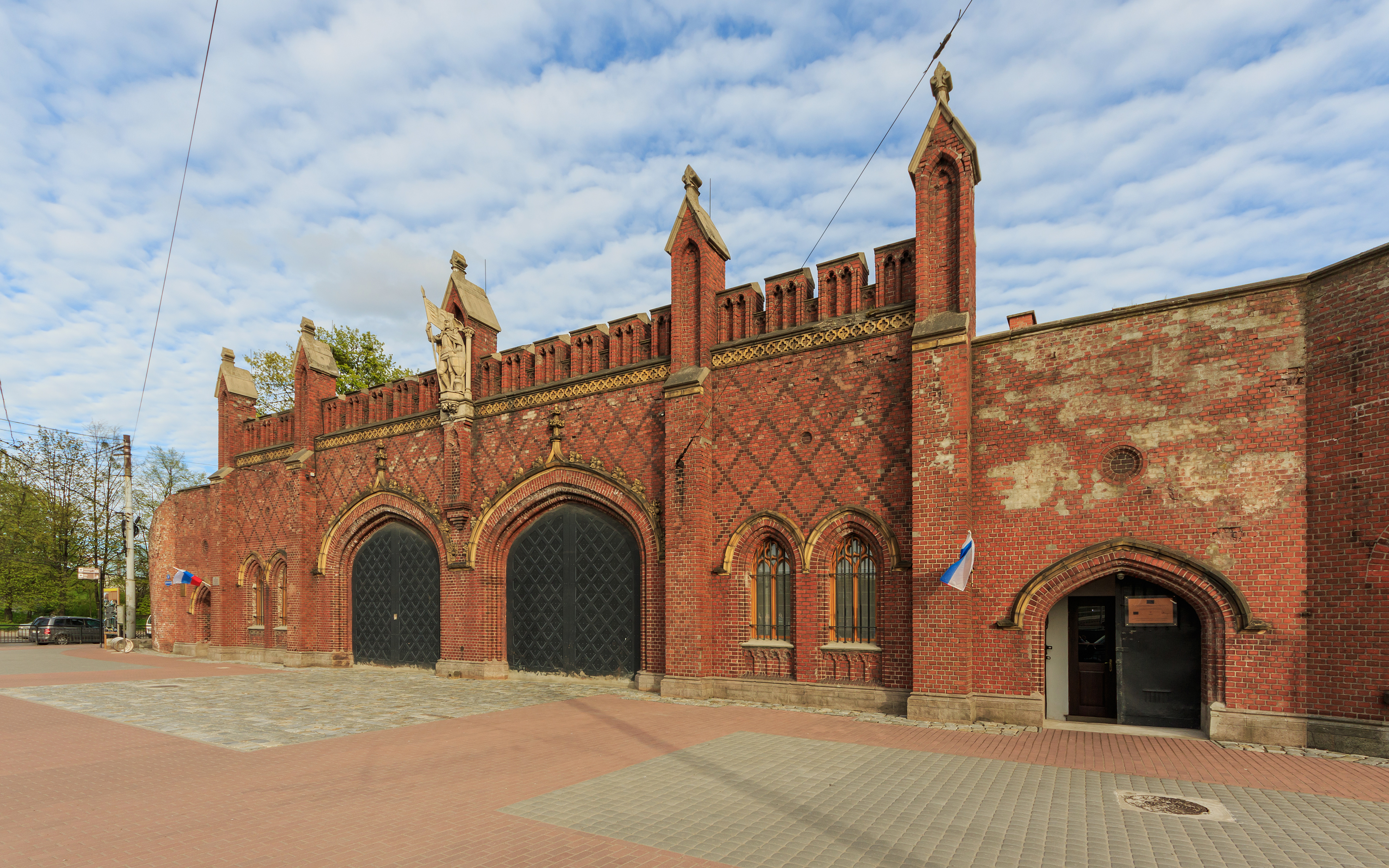 Friedland Gate in Kaliningrad formerly Königsberg, Kaliningrad Oblast (Russia).